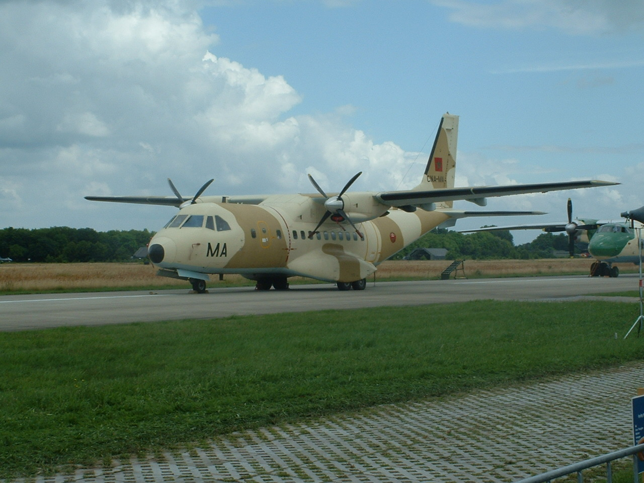 Royal Moroccan Air Force CASA CN-235